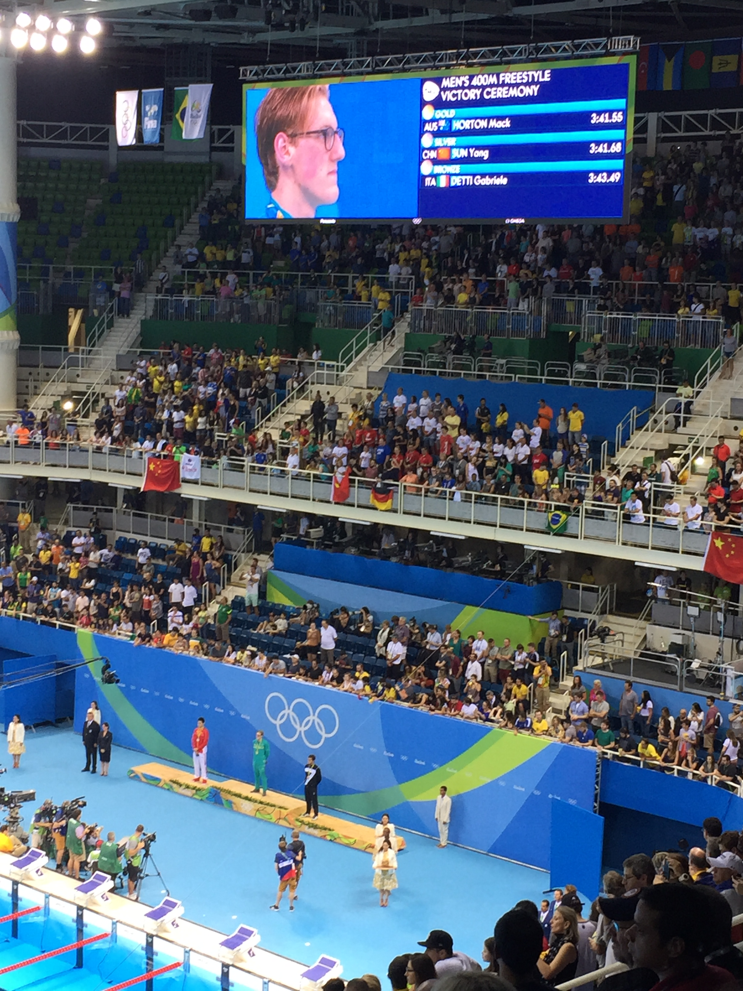 Rio 2016 Olympics - Swimming 6 August evening session